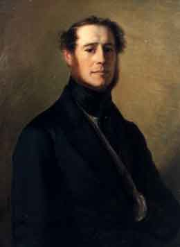 Portrait painting of August Louis Detlev von Schrader (1810-1859), German nobleman, jurist, landowner and politician in Saxe-Lauenburg